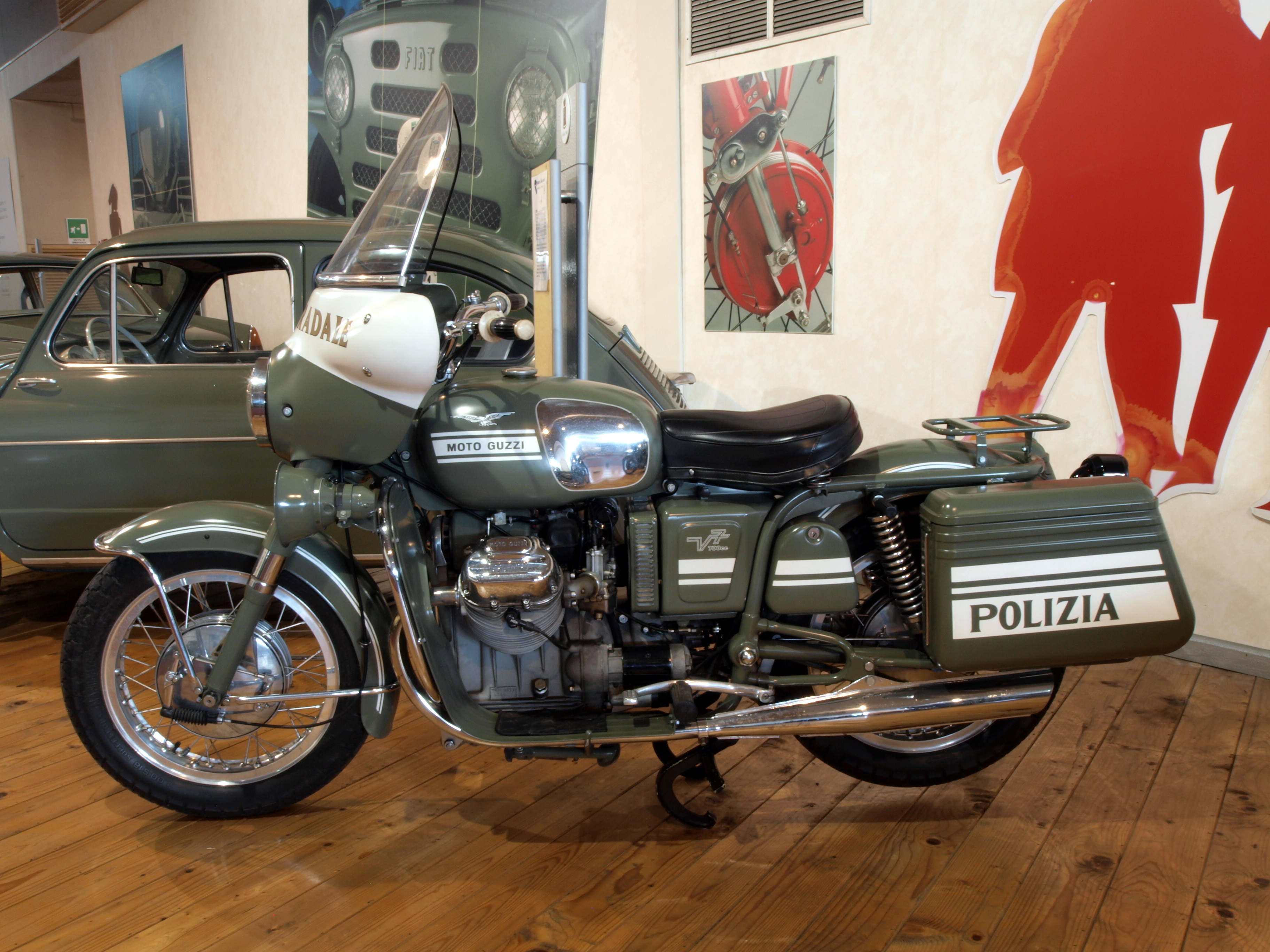 Photographed at Rome, Italy.